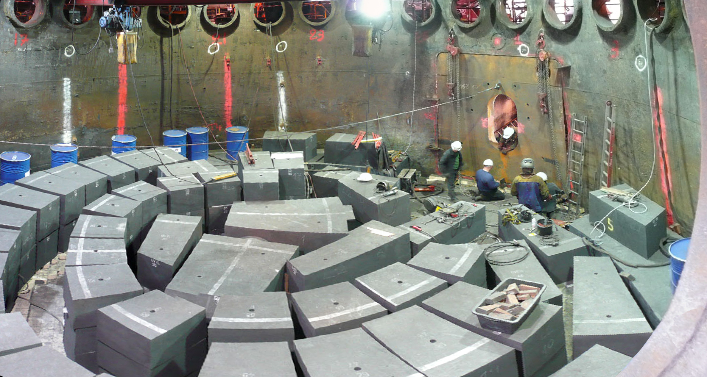 Carbon blocks in the blast furnace, during the last hearth relining of the blast furnace HF6 of Seraing, end 2007. Panorama created with Hugin from 5 pictures tken from a tuyere.